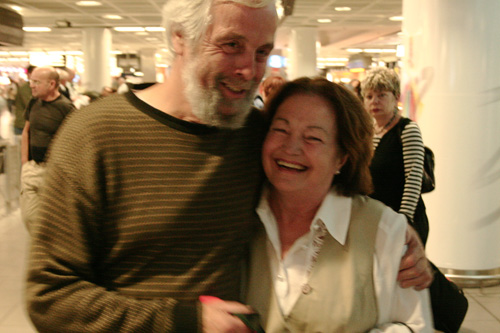 Mairead and her husband reunited